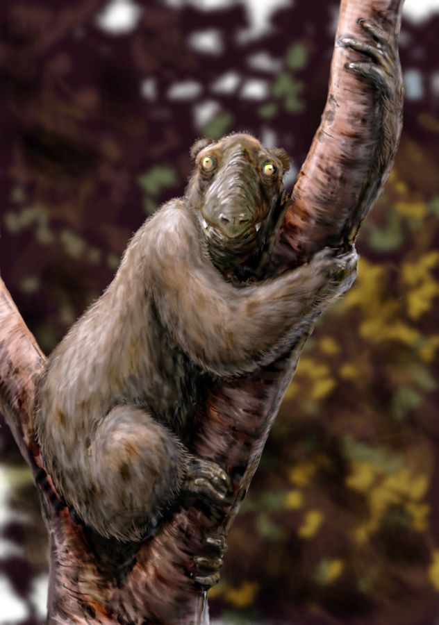 Megaladapis edwardsi Life restoration based on photos of skeletal remains and supported with correspondence with Dr. Laurie Godfrey